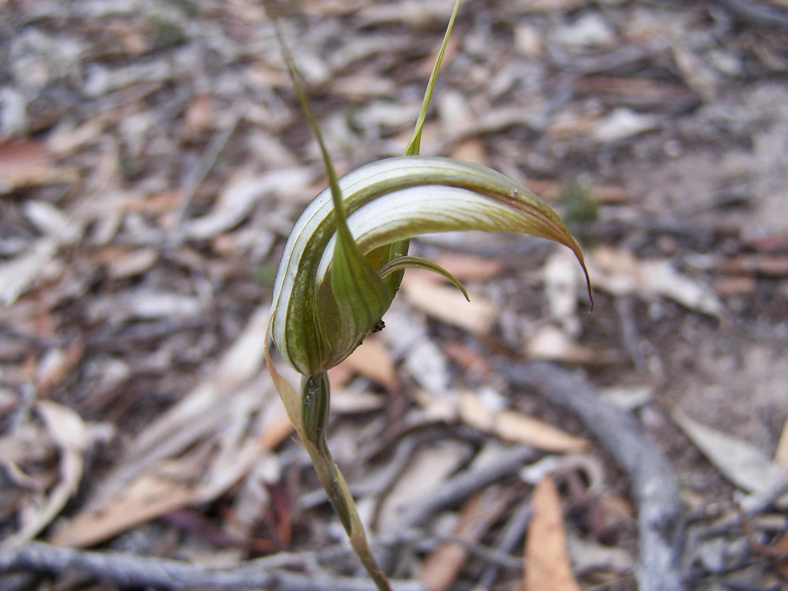 Australian orchid, the Autumn Greenhood (Pterostylis revoluta)